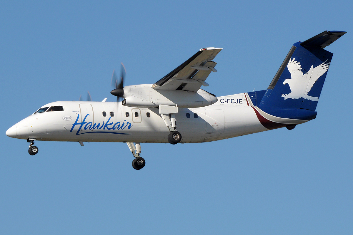 Hawkair Bombardier Dash 8-100 landing in Vancouver